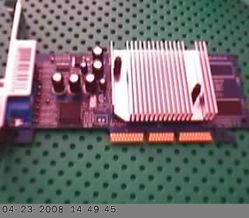 Author: William James Marshall